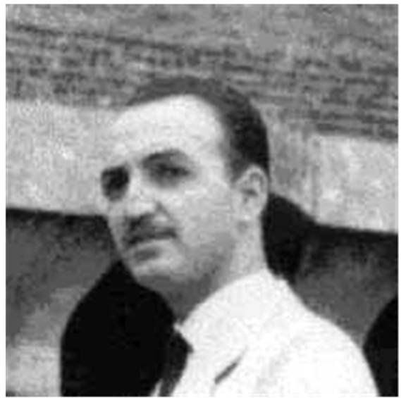 Colonel Lotfi a figure of the FLN.